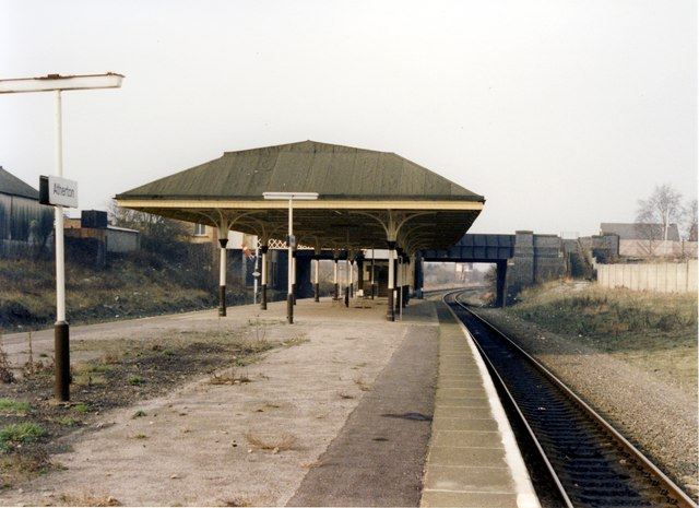 Atherton railway station Original description: Atherton station